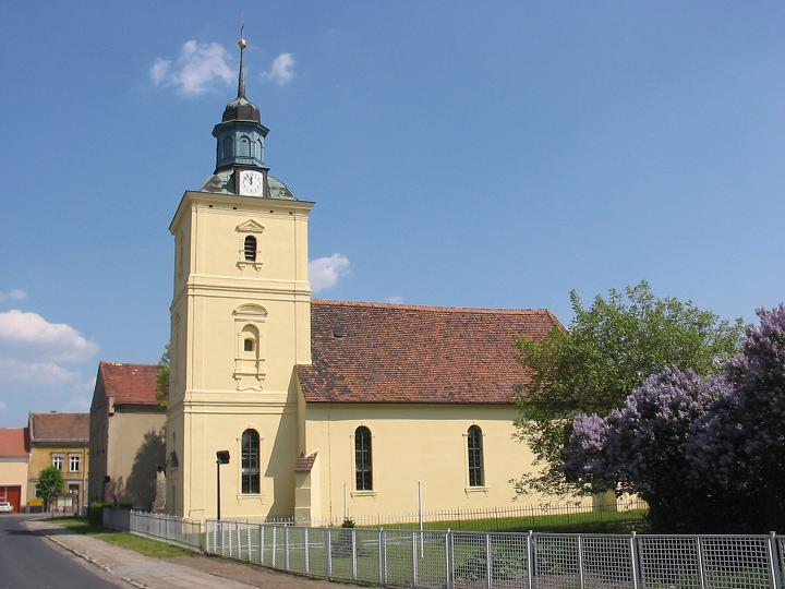 Church in Stülpe, a village (part) of the municipality Nuthe-Urstromtal in Brandenburg, Germany. The church was new built in 1689/1690